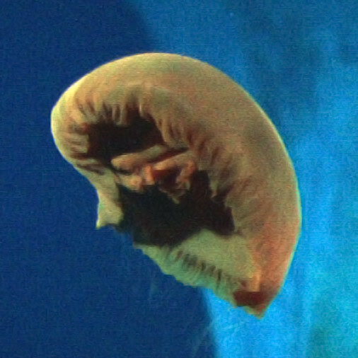 Hercules captured this image of a deep-sea jelly fish, possibly Poralia rufescens, undulating several meters above the seafloor just south of the IMAX vent at Lost City. Atlantic Ocean, Mid-Atlantic Ridge.